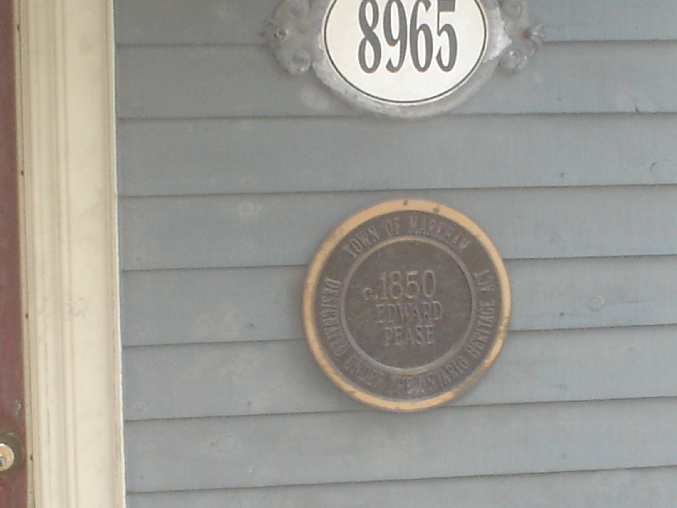 Sign showing that the Edward Pease house in Markham is a designated Ontario Heritage Property.